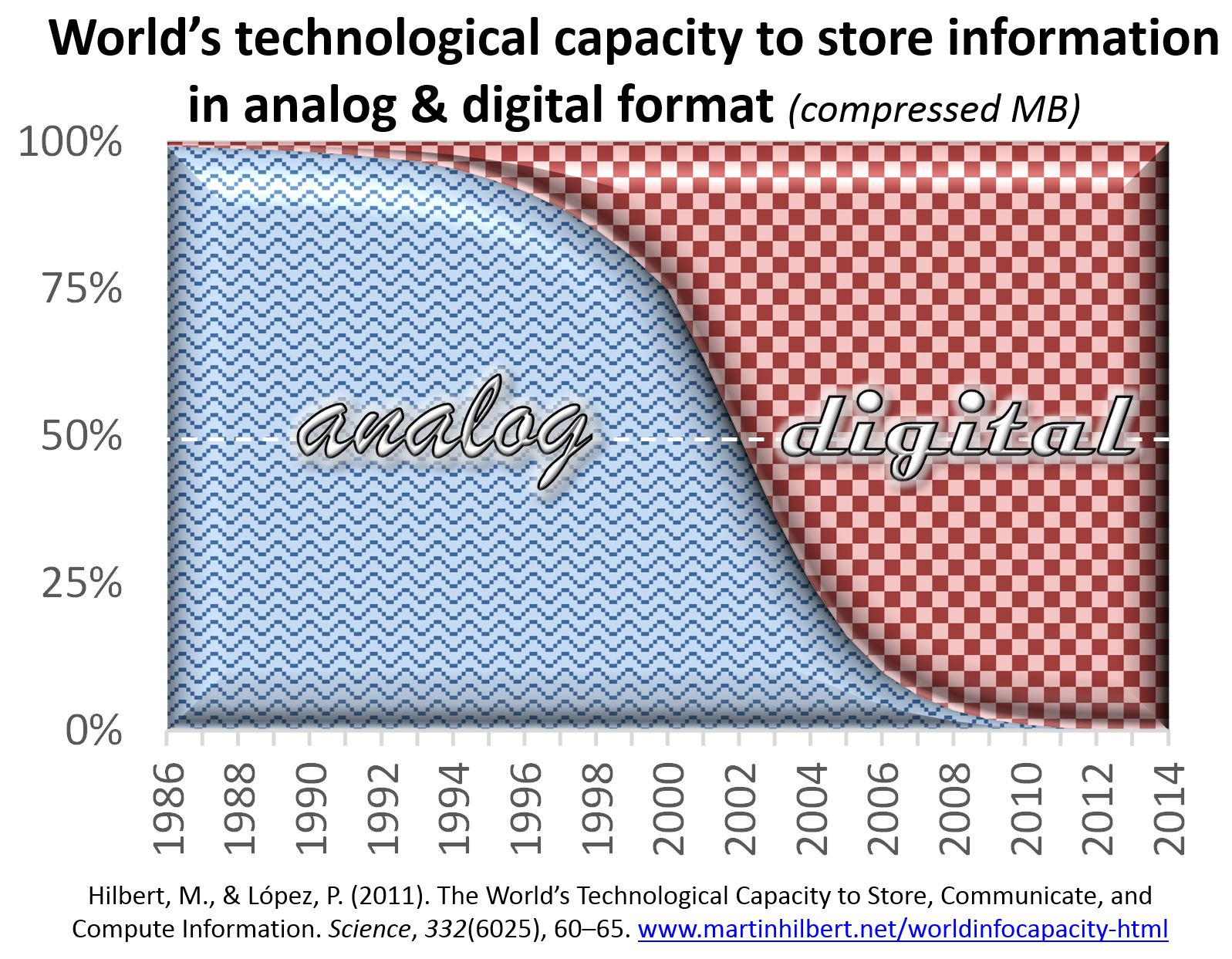 World’s technological capacity to store information in analog & digital format (compressed MB)